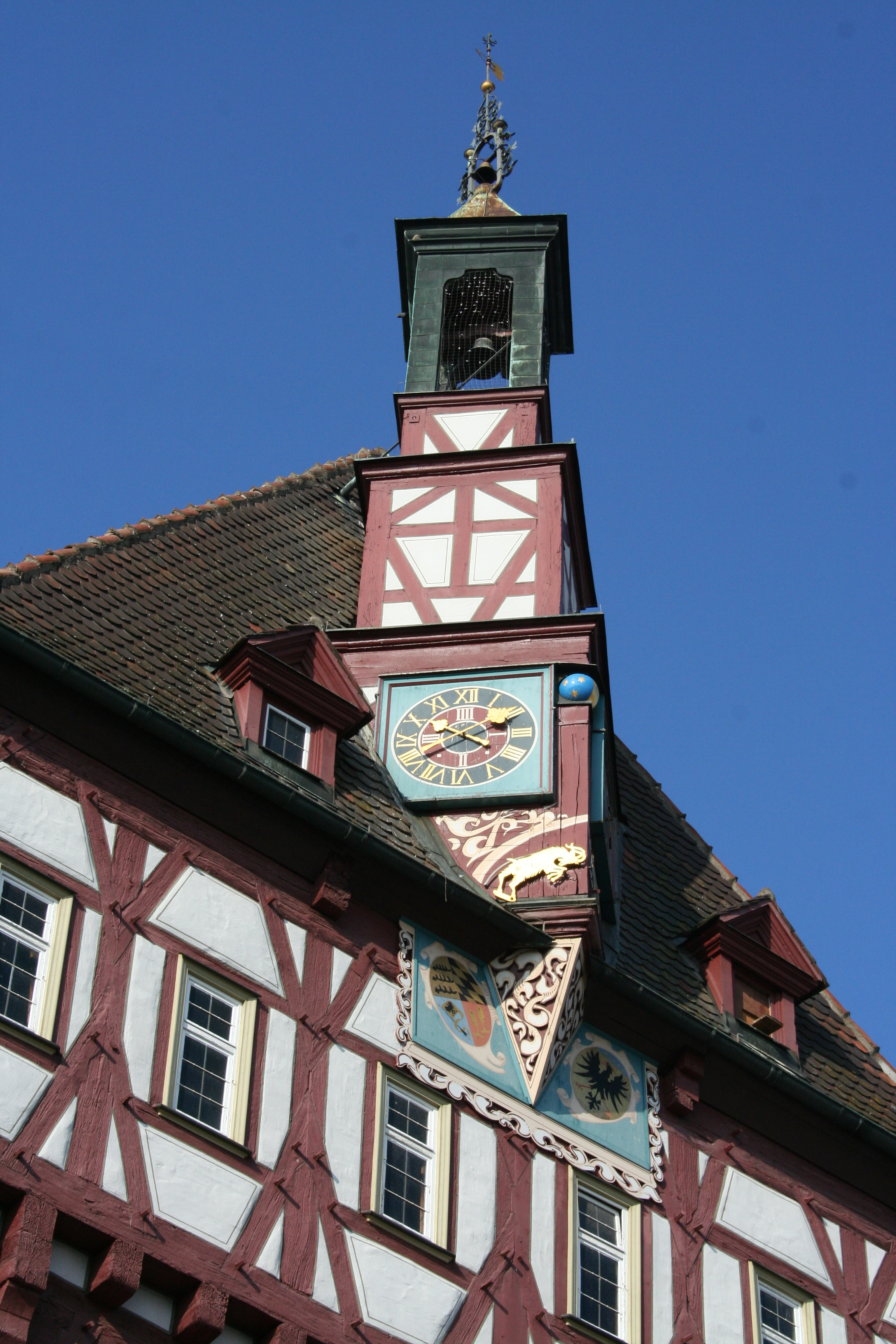 City hall in Markgröningen on the marketplace with market well.